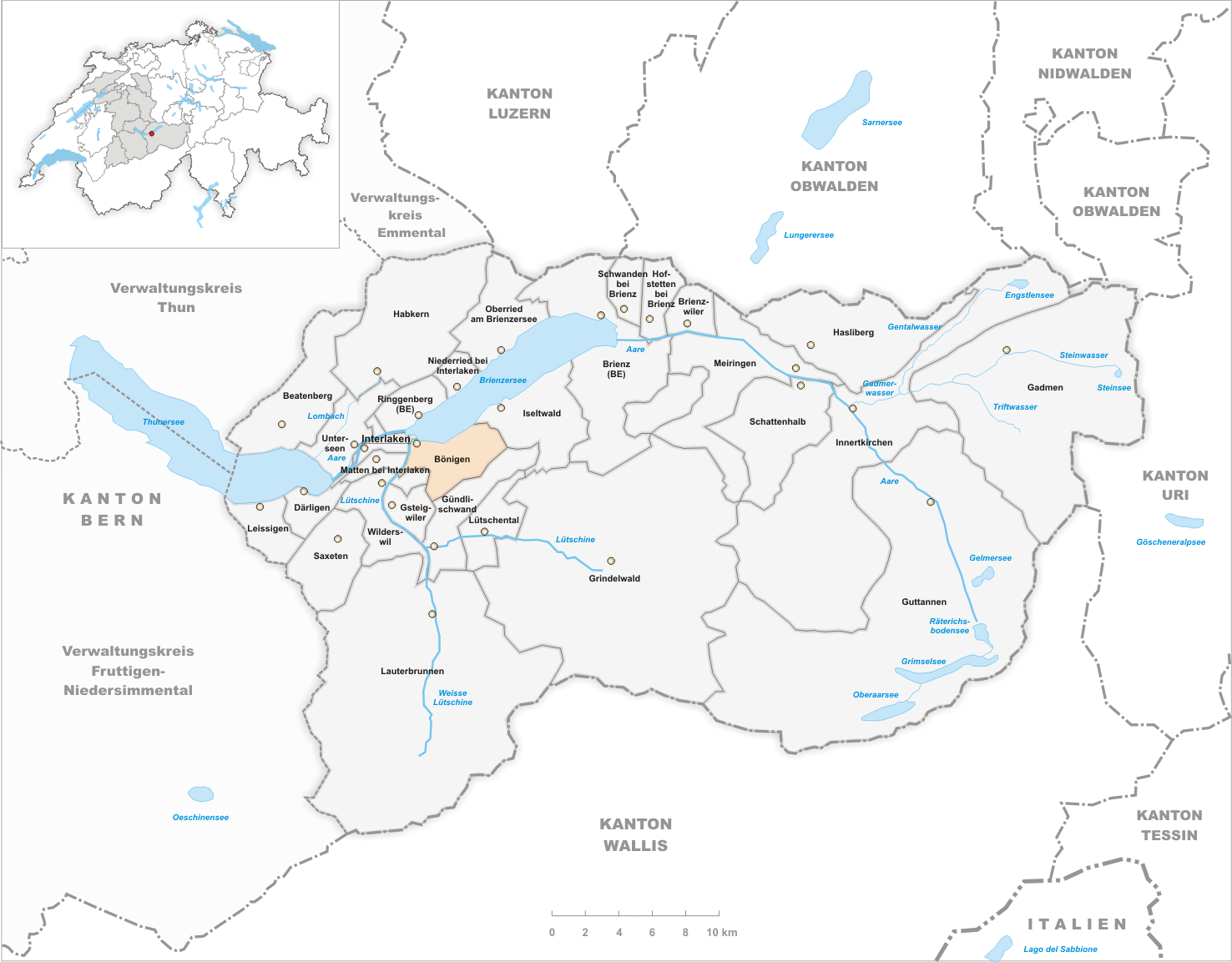 Municipality Bönigen